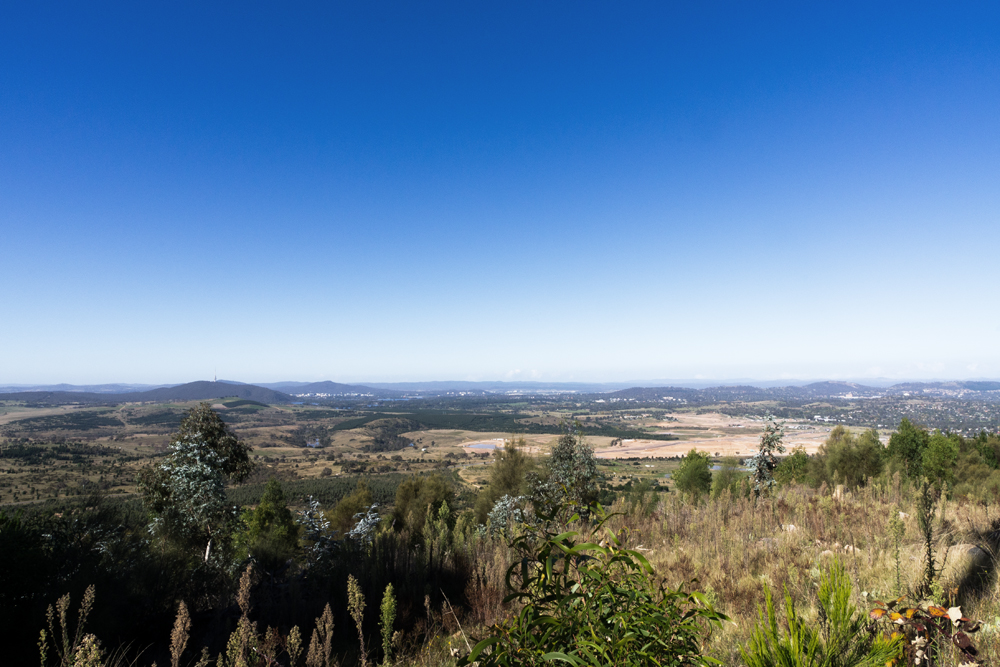 A view of Canberra from Mount Stromlo